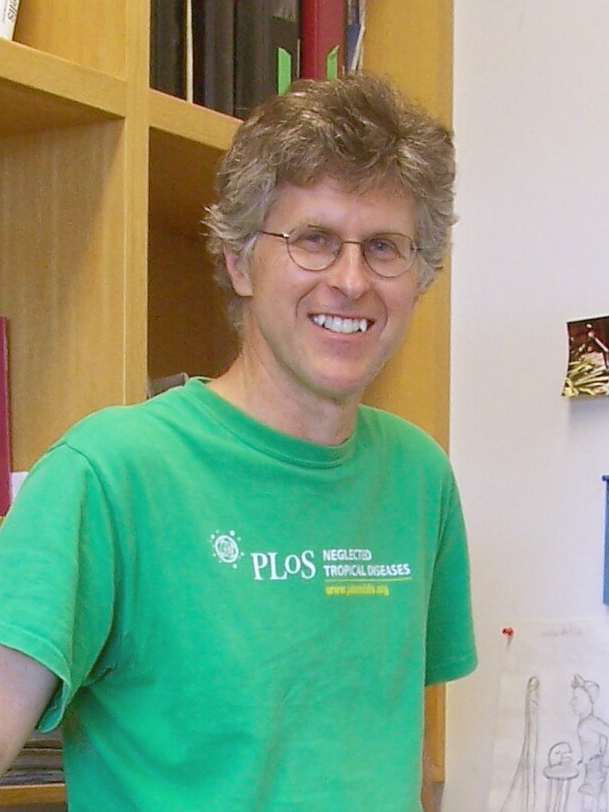 Pat Brown